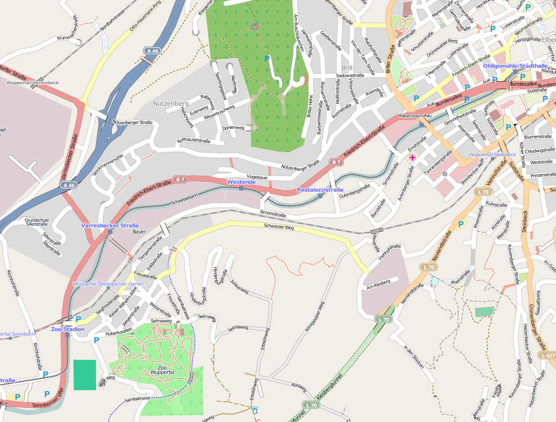 Map of the Friedrich-Ebert-Straße in Wuppertal, Northrhine-Westfalia, Germany